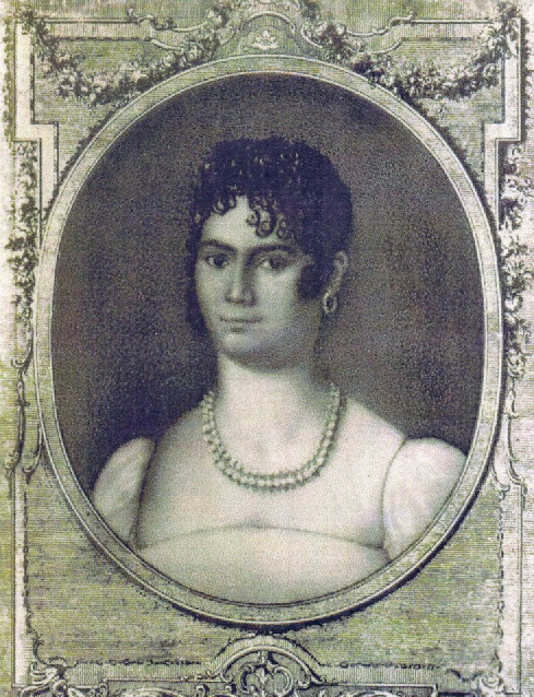 Portrait engraving of Catarina Micaela de Sousa César e Lencastre, Viscountess of Balsemão (1749-1824)